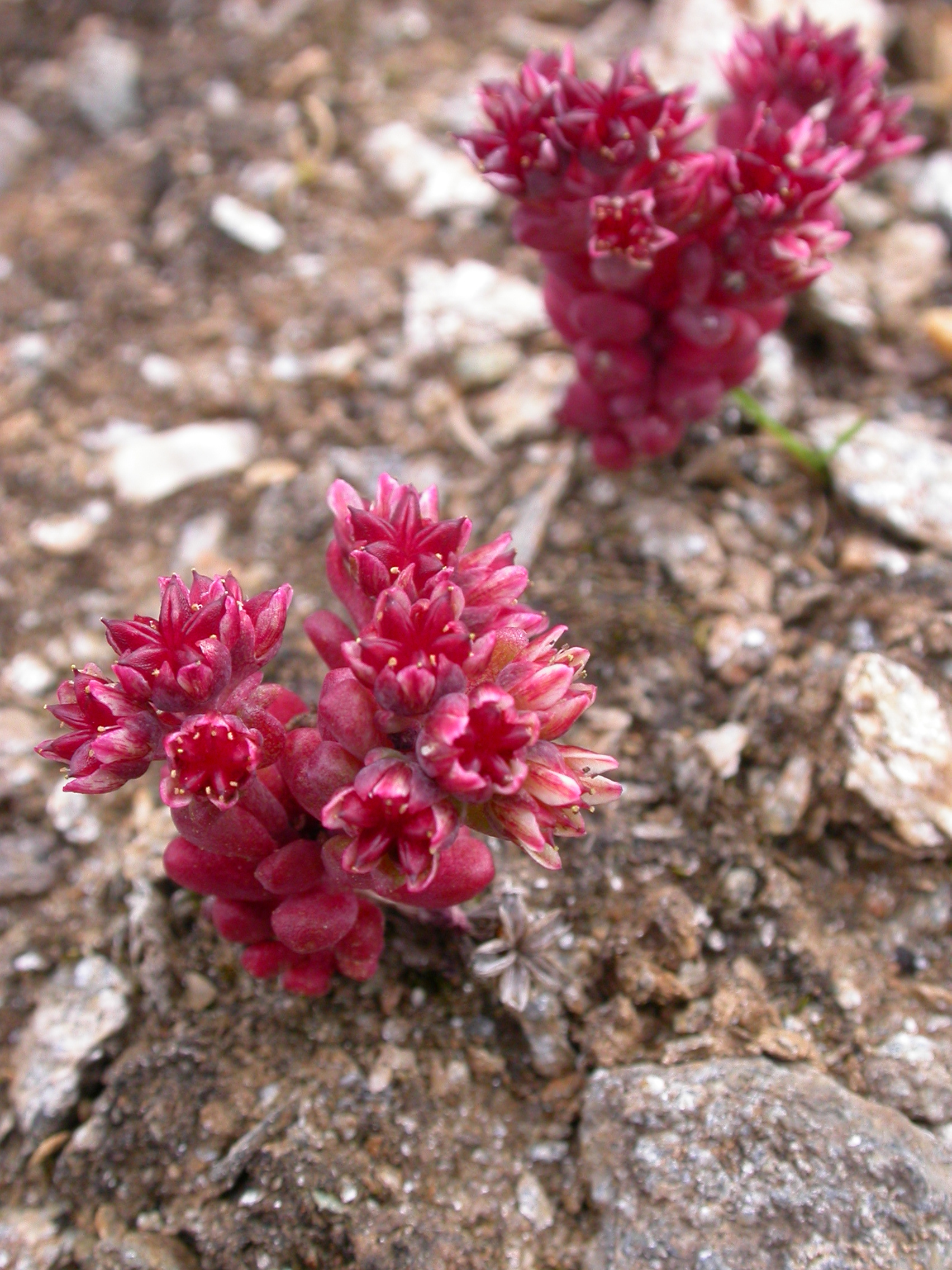 Sedum atratum Zermatt, Riffelberg (Kanton Wallis, Switzerland), 2500 m Author: Barbara Studer – own photograph Date: 2.08.06